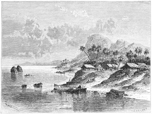 Camp established by shipwrecked crew of the Hermitte (French vessel) on the islet of Nukutea (south of Wallis island) in 1874. Engraving from the book Les îles Wallis (De Wallis Eilanden) d'Emile Deschamps.